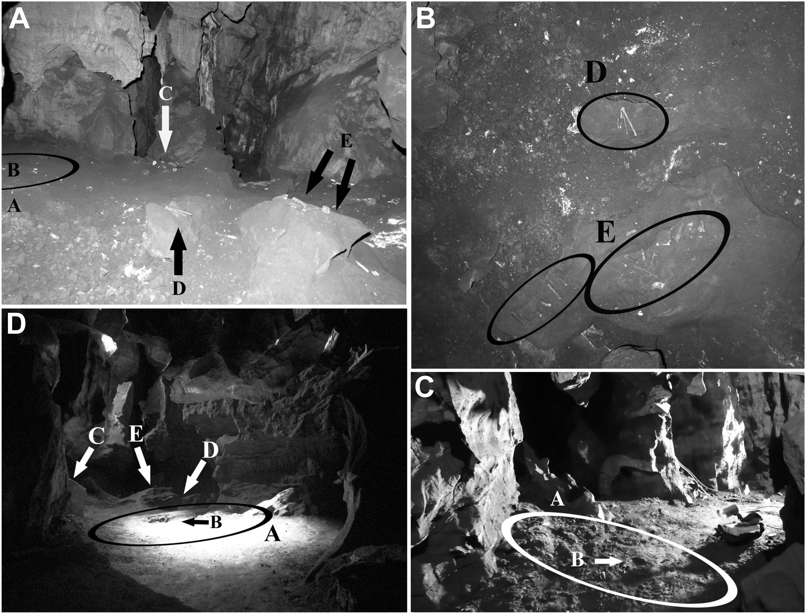 Views of the Dinaledi Chamber. Clockwise from top left: (A) Photograph taken during initial exploration of the chamber; view to the N. Ellipse ‘A’ indicates the area where most of the hominid material was excavated. Letter ‘B’ shows the location of the cranial fragment that was one of the first pieces removed from the chamber. Arrows ‘C, D and E’ indicate areas of concentrated surface material. Block E is ∼ 50 cm across. (B) pre-excavation view of the chamber floor. ‘D’ and ‘E’ included hominid teeth, (intrusive) bird bones and several long bone fragments that had been ‘arranged’ on rocks by an unknown caver prior to discovery by our caving team. Top of the photograph point to the NE. Base of the photograph is 80 cm. (C) view of the primary excavation area prior to excavation looking in a NE direction. The diameter of the ellipse is 1 m for scale (D) the excavation area at the end of the first round of excavations looking in a SSE direction (November 2013). Ellipse A is the same as in previous figures. Arrow B shows the fragment of a long bone that was uncovered after the cranial fragment had been removed. Arrows C, D and E indicate where surface concentrations had previously been. The diameter of the ellipse is 1 m for scale.